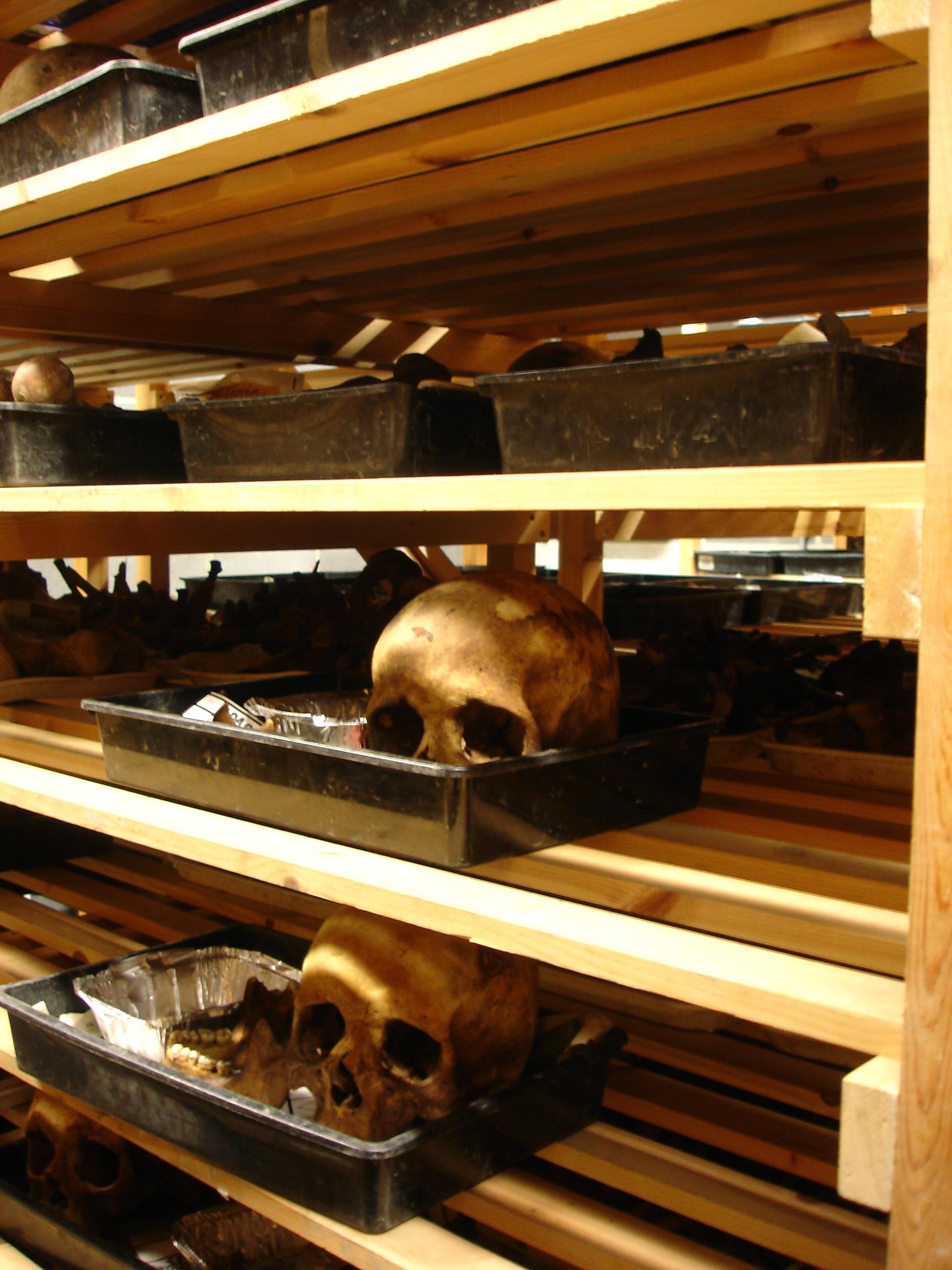 bone drying